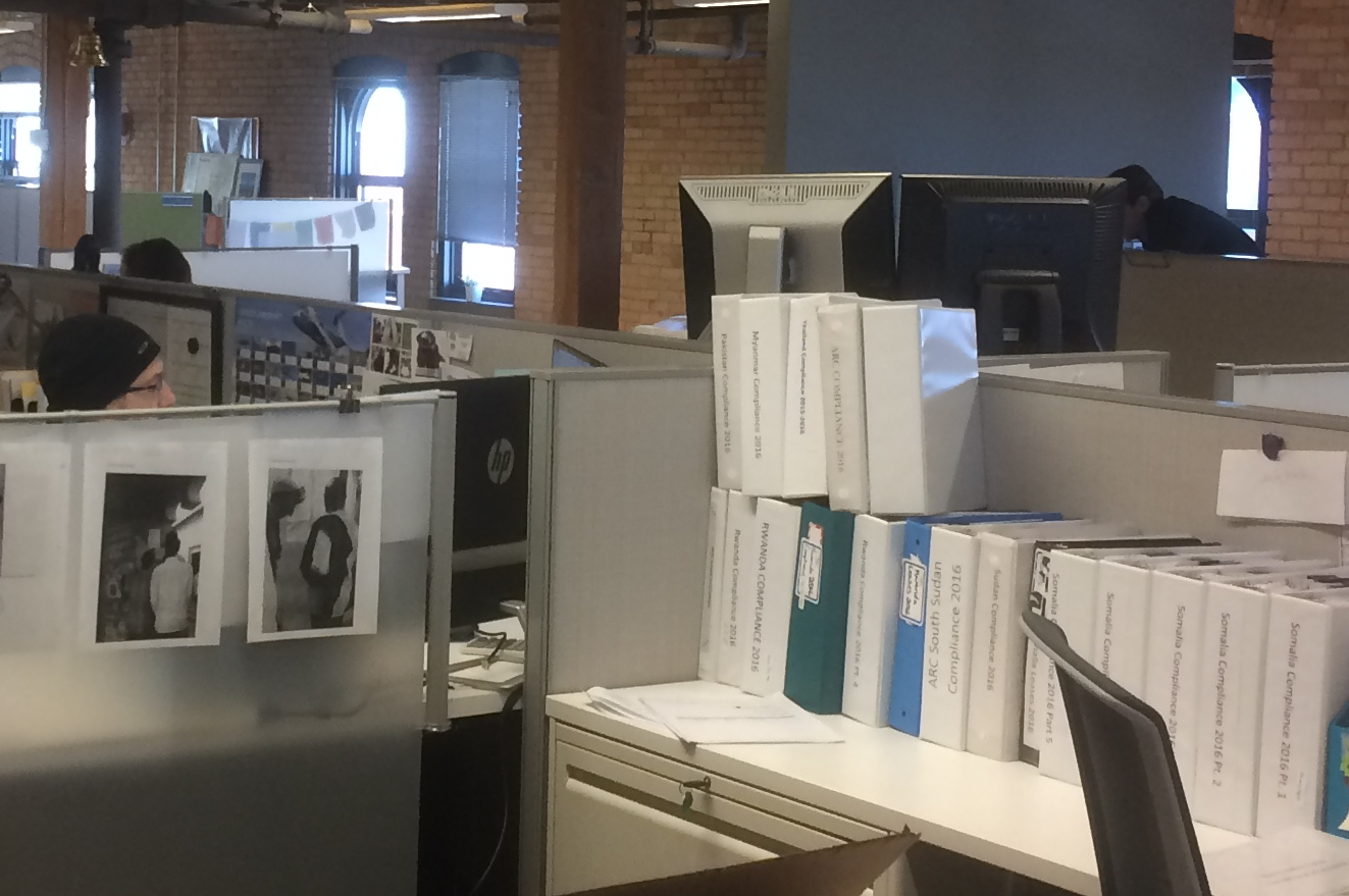 American Refugee Committee offices, Minneapolis, Minnesota